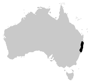 Distribution of Red-backed Toadlet (Pseudophryne coriacea) User:Froggydarb/GFDL-self